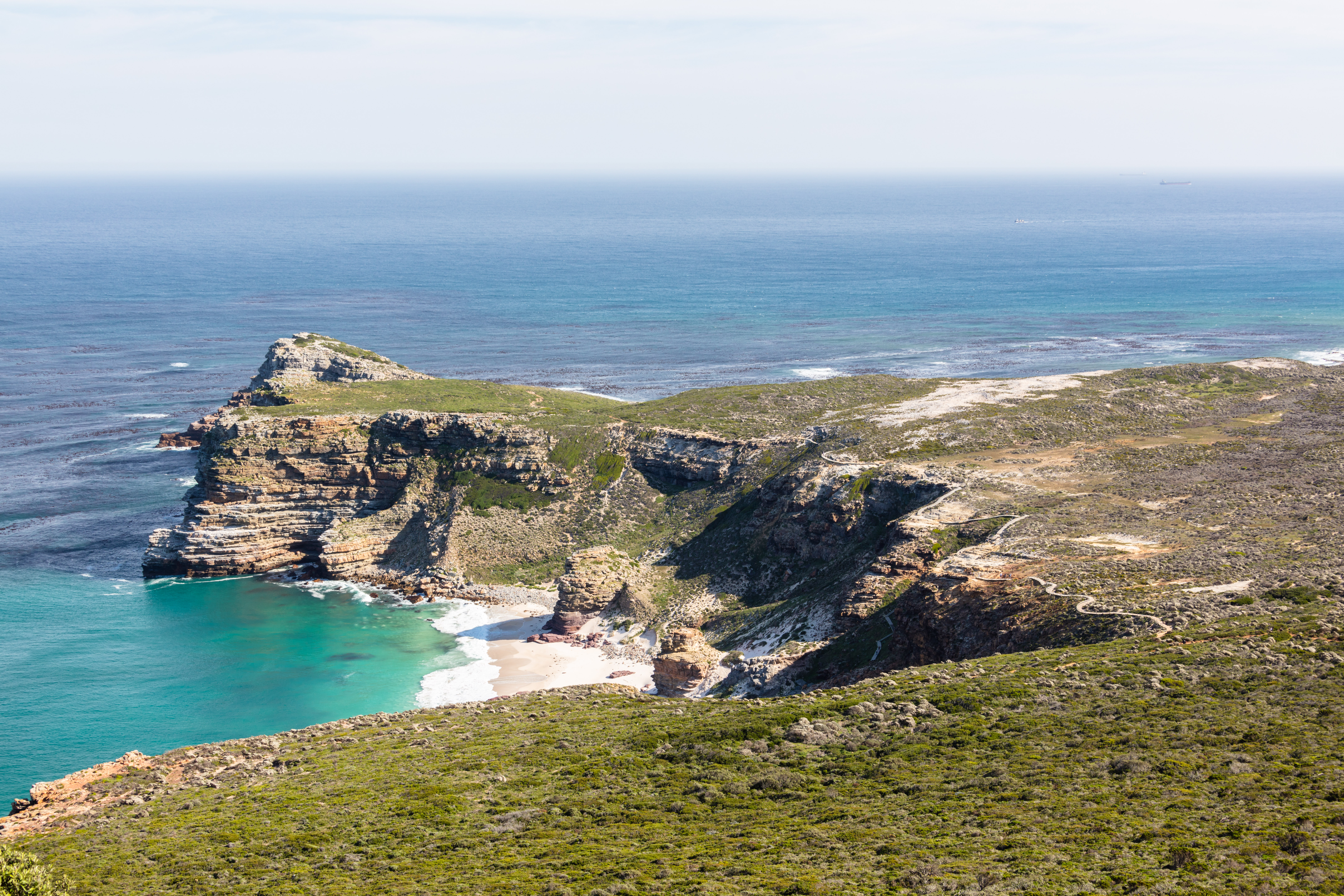 Dias Beach, Cape Point, South Africa